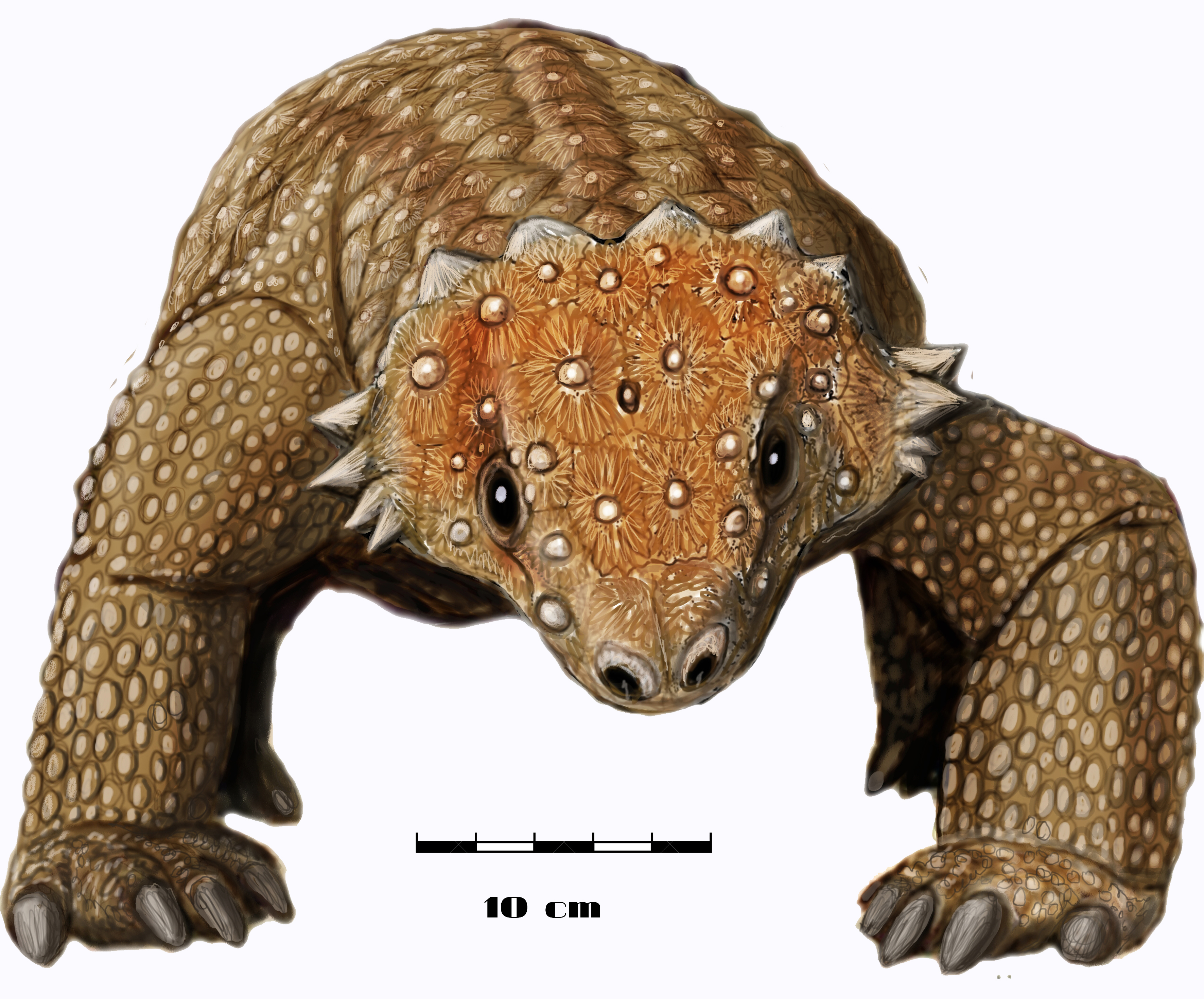 Nanoparia luckhoffi, small pareiasaurian from Late Permian of South Africa - Cistecephalus Assemblage Zone, Beaufort Group, Wuchiapingian (259.0 - 254.0 Ma)